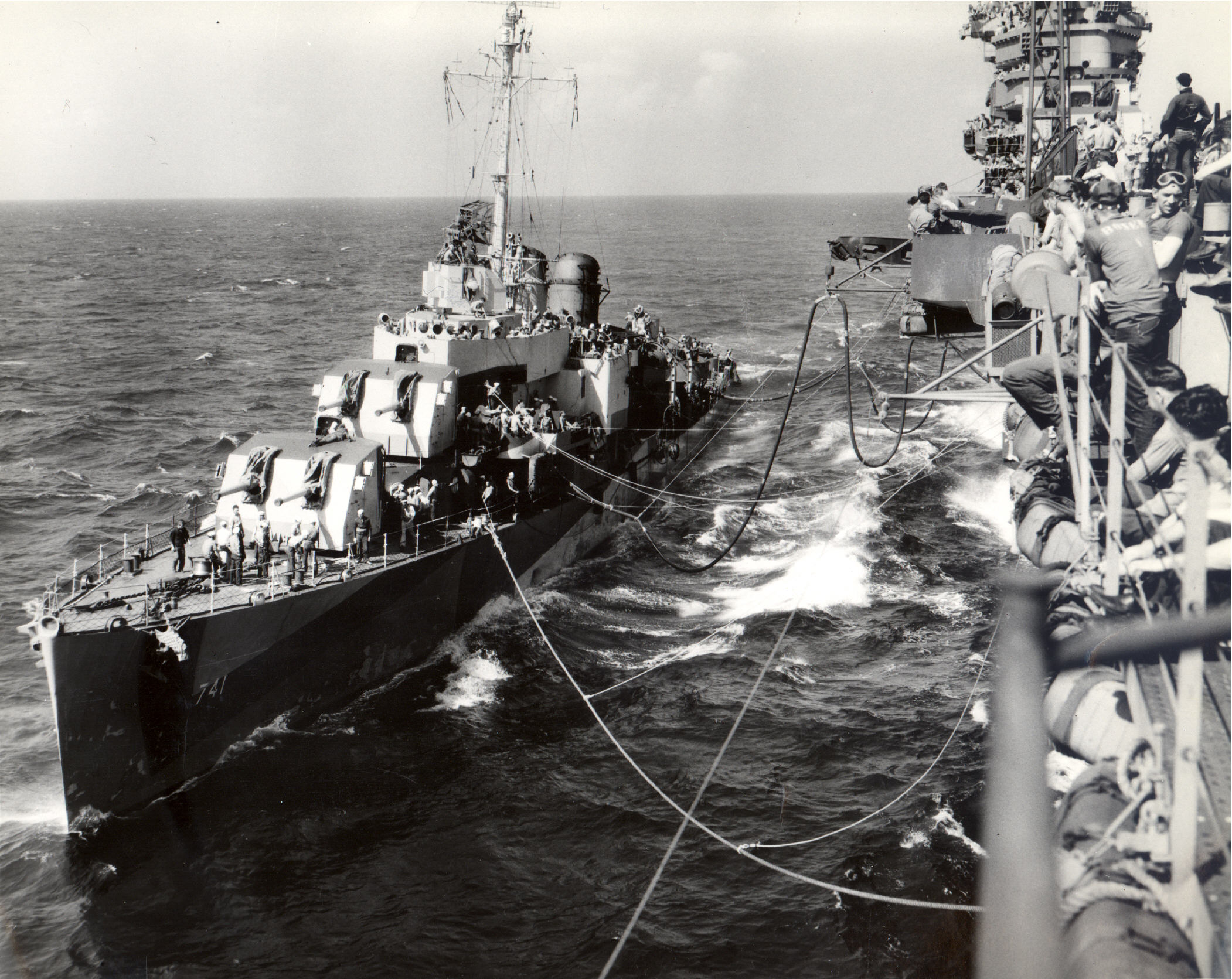 The U.S. Navy Allen M. Sumner-class destroyer USS Drexler (DD-741) at sea being refueled by the aircraft carrier USS Bon Homme Richard (CV-31) in the Caribbean Sea, 19 February 1945. On 28 May 1945 Drexler was sunk off Okinawa by two kamikazes. Her casualties were 158 dead and 52 wounded.